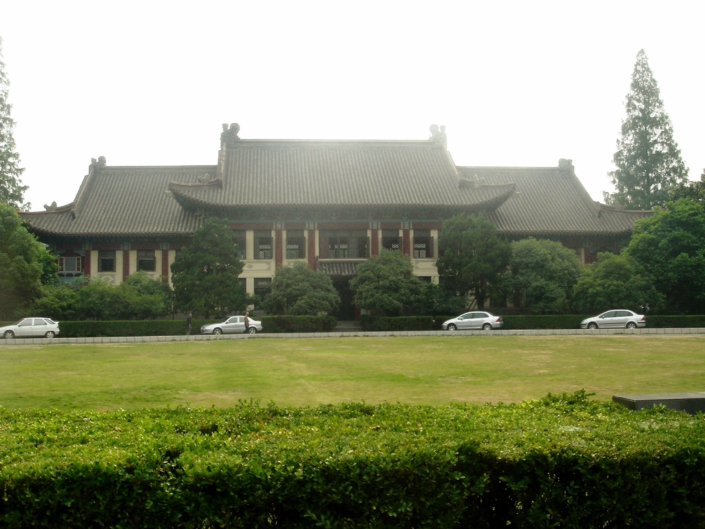 NanjingNormalUniversity monument,南京师范大学随园校区内主楼